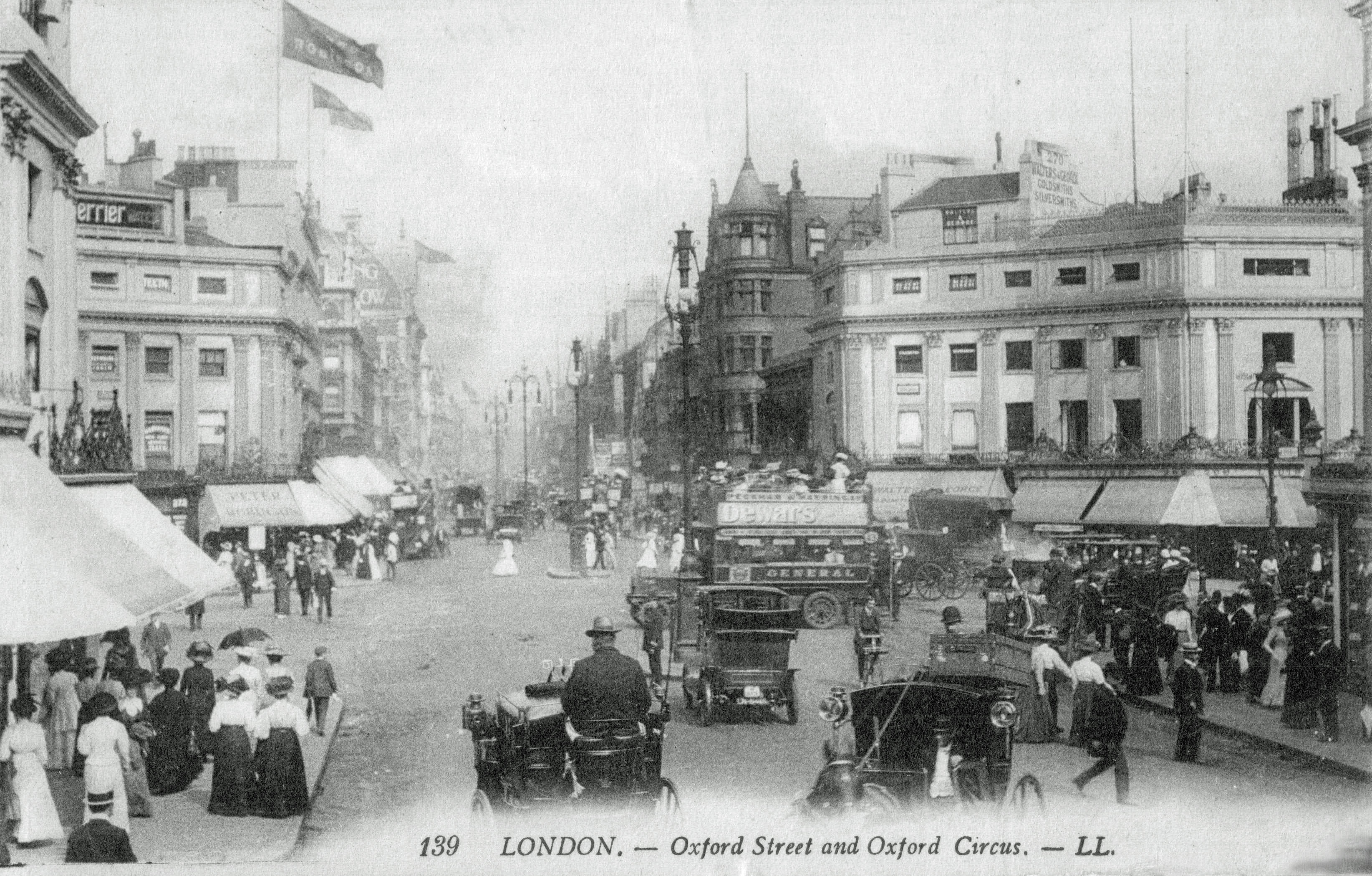 This is a Louis Levy postcard from about 1904 showing Oxford Circus looking east towards New Oxford Street. The very early motor bus is turning right into New Oxford Street from Regent Street and an officer from Vine Street police station is directing traffic. There is also an officer on the pavement centre right on a 'Fixed Point', these were locations where citizens knew that they could find a Police Constable. In Dickens's Dictionary of London (1888) this fixed point's location is described " Oxford Street-Circus, corner of Swallow Street, south side of Oxford Street, west of Regent Street. This was a very busy location as can be seen from the photograph.